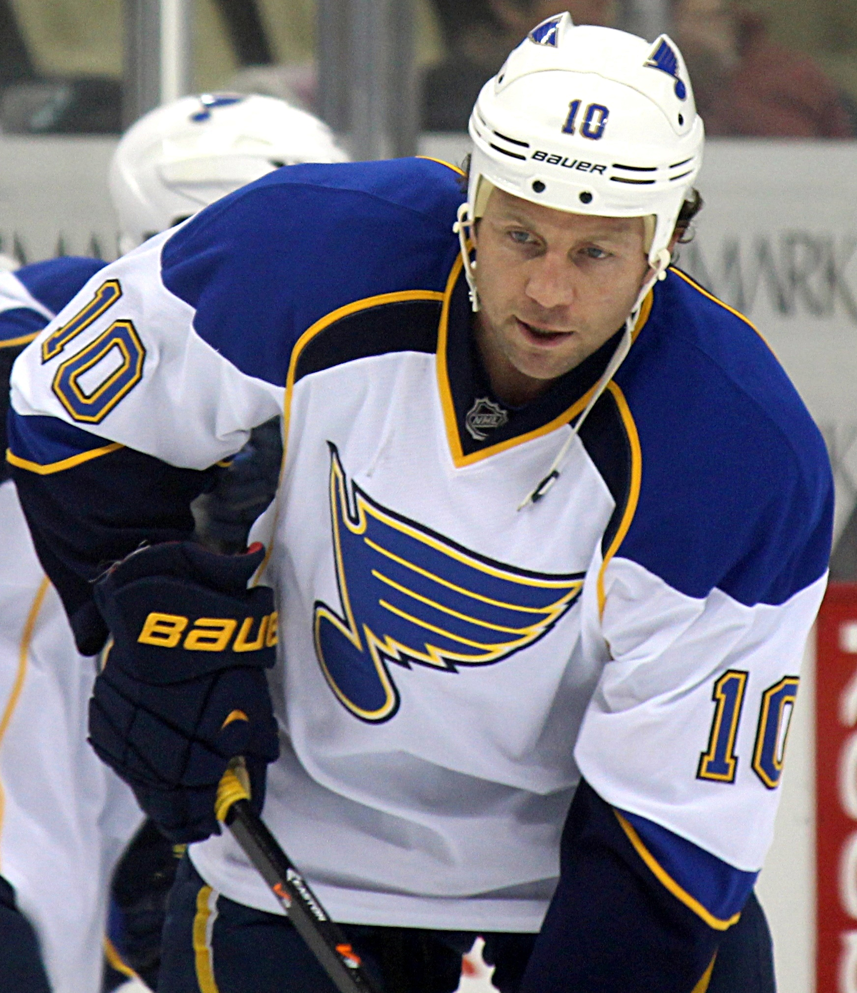 St. Louis Blues forward Brenden Morrow during a game against the Pittsburgh Penguins, March 23, 2014, at Consol Energy Center in Pittsburgh, PA.